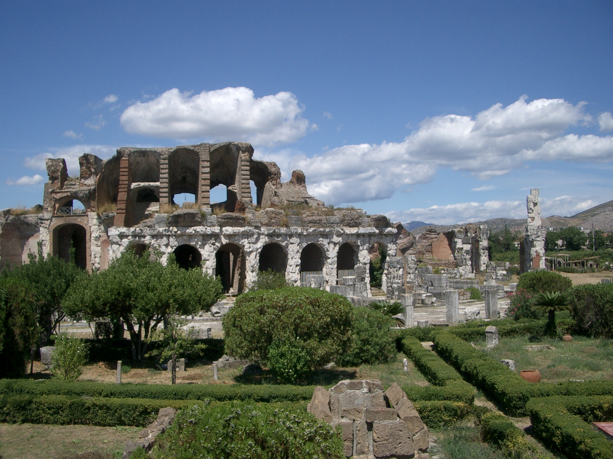 Amphitheathre of antique Capua